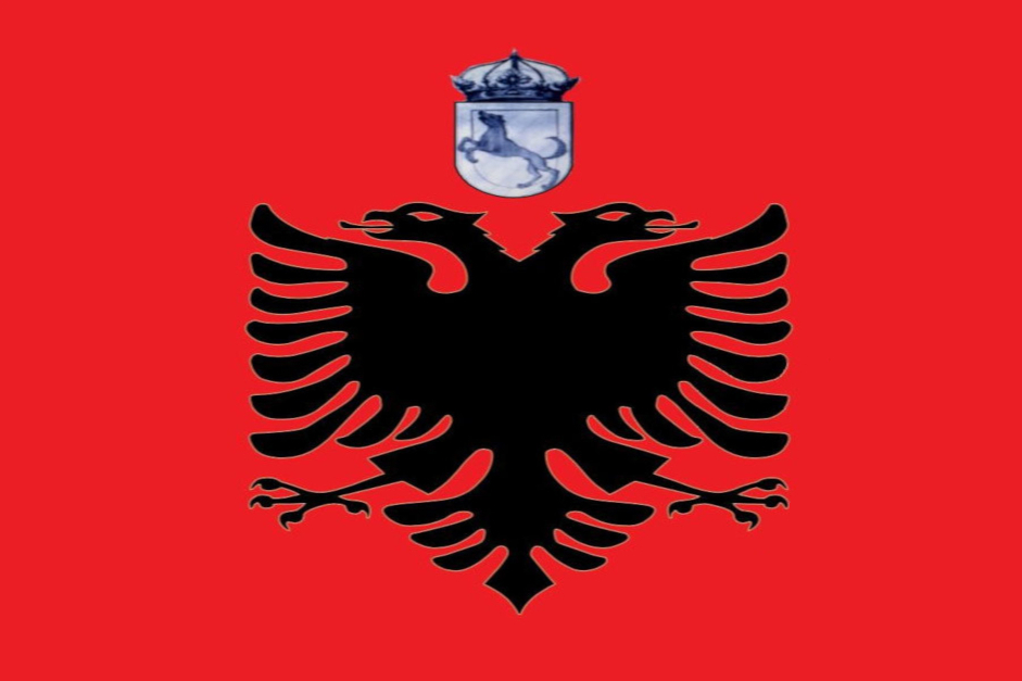 Unofficial, hypothetical flag of the Republic of Chameria